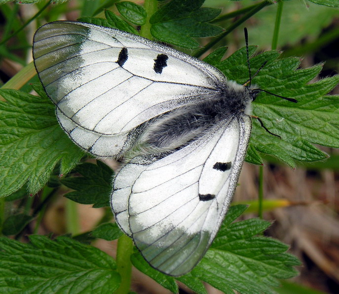 Parnassius mnemosyne Photo by Algirdas, 27 May 2006, Lithuania